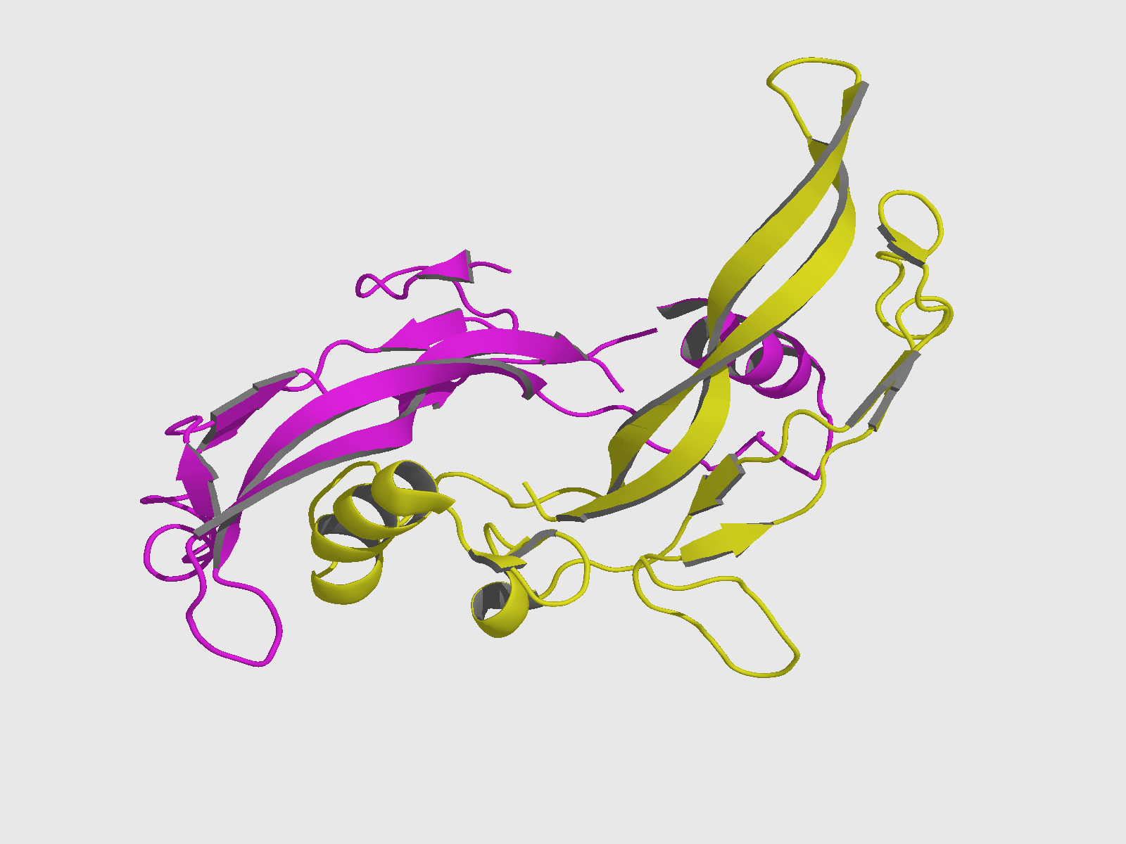 3D structure of Activin (Inhibin beta A chain) dimer from PDB 2ARV. Ref: Harrington, A.E., Morris-Triggs, S.A., Ruotolo, B.T., Robinson, C.V., Ohnuma, S., Hyvonen, M. (2006) Structural basis for the inhibition of activin signalling by follistatin Embo J. 25: 1035-1045